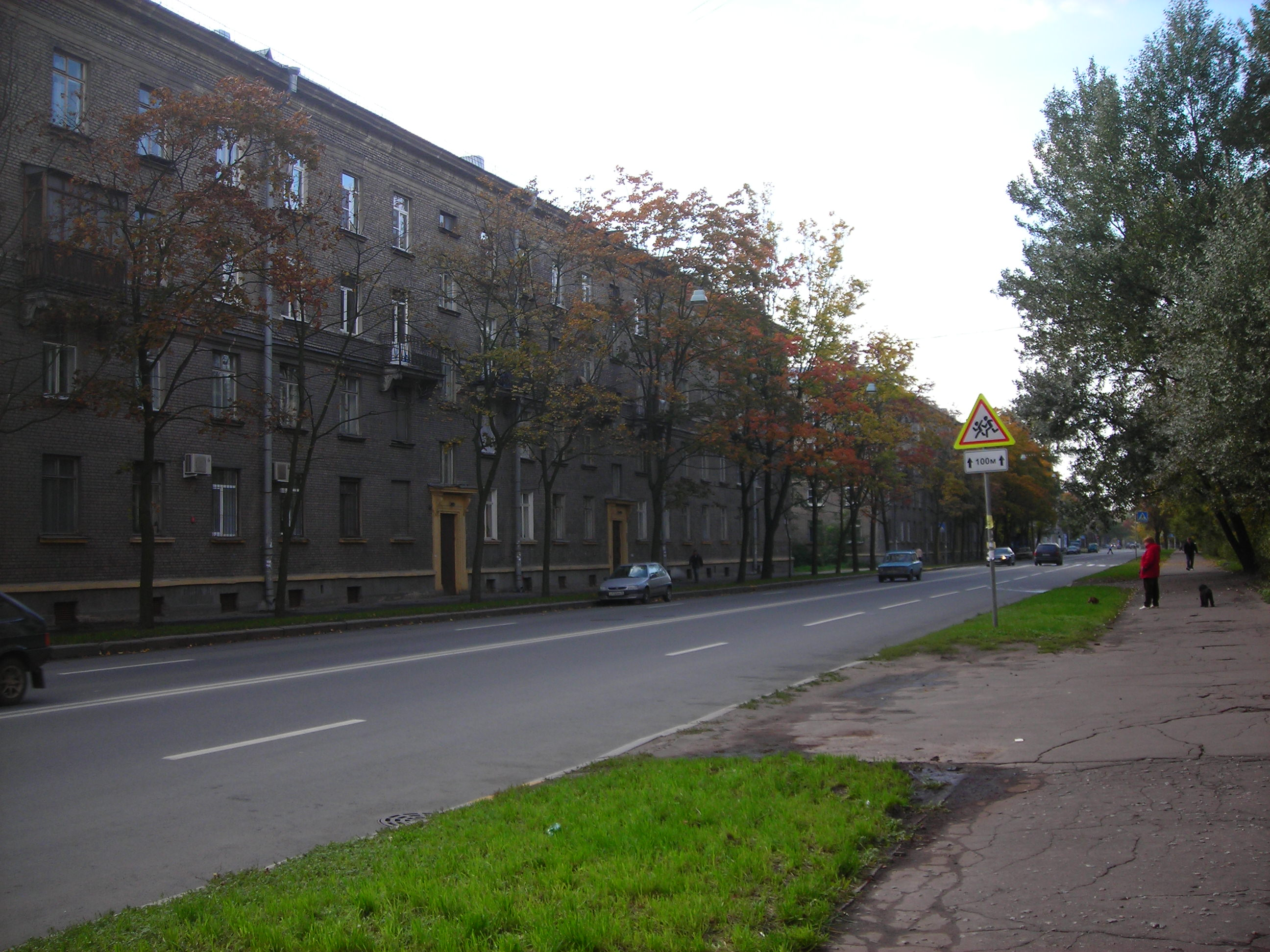 Shkolnaya street